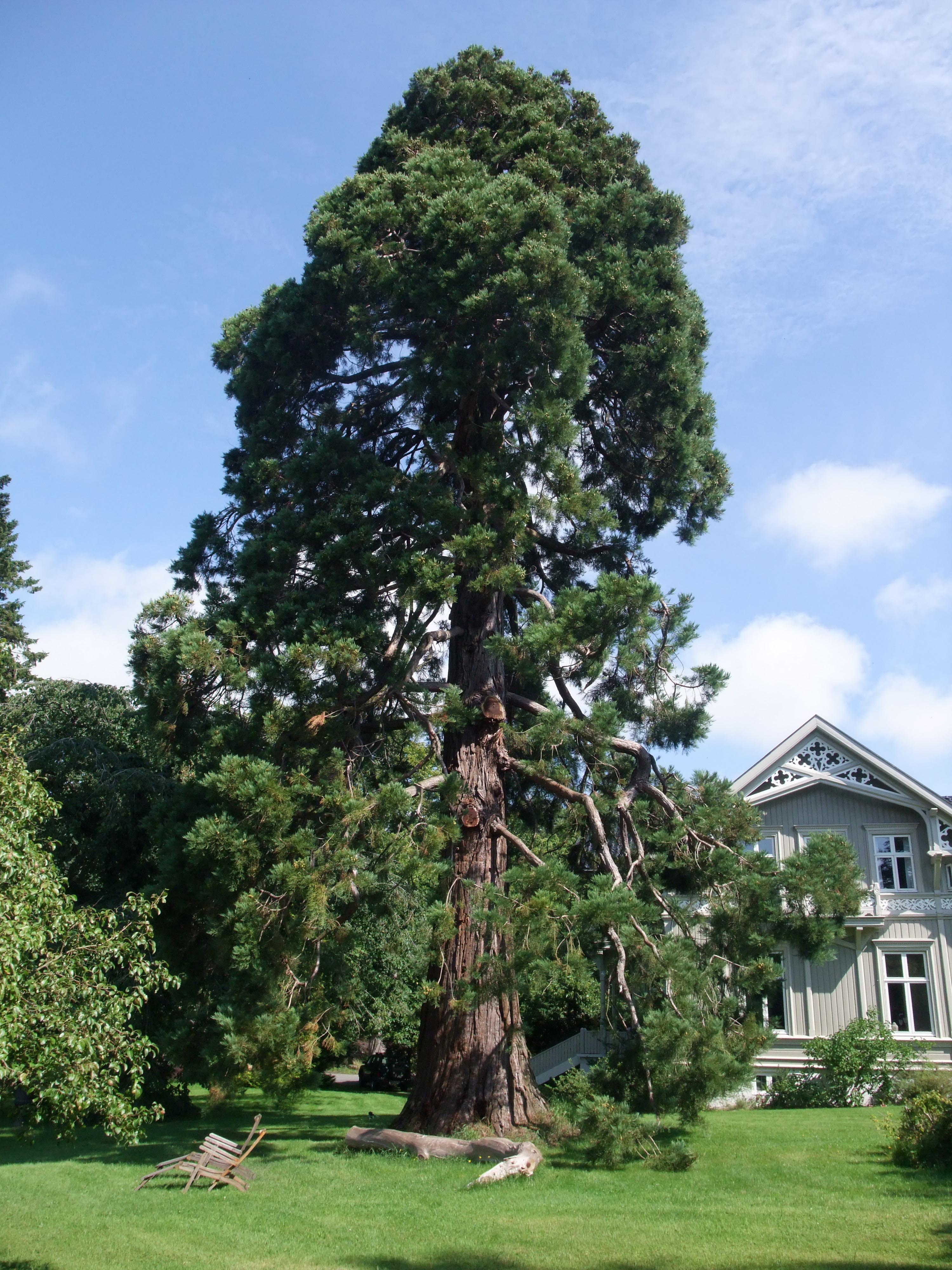 Sequoiadendron giganteum, Fevik, Norway